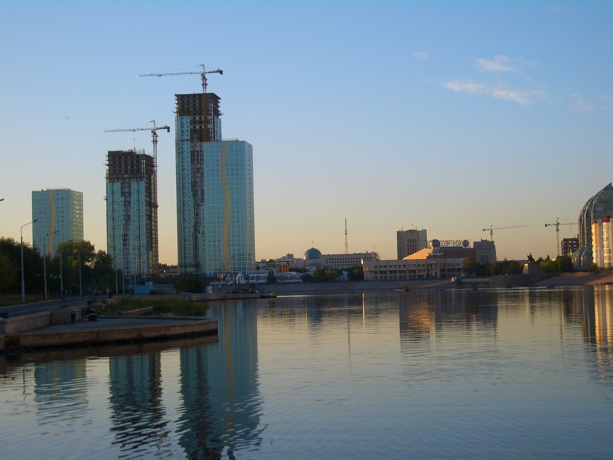 New building being constructed near the Ishim River in central Nur-Sultan, Kazakhstan.